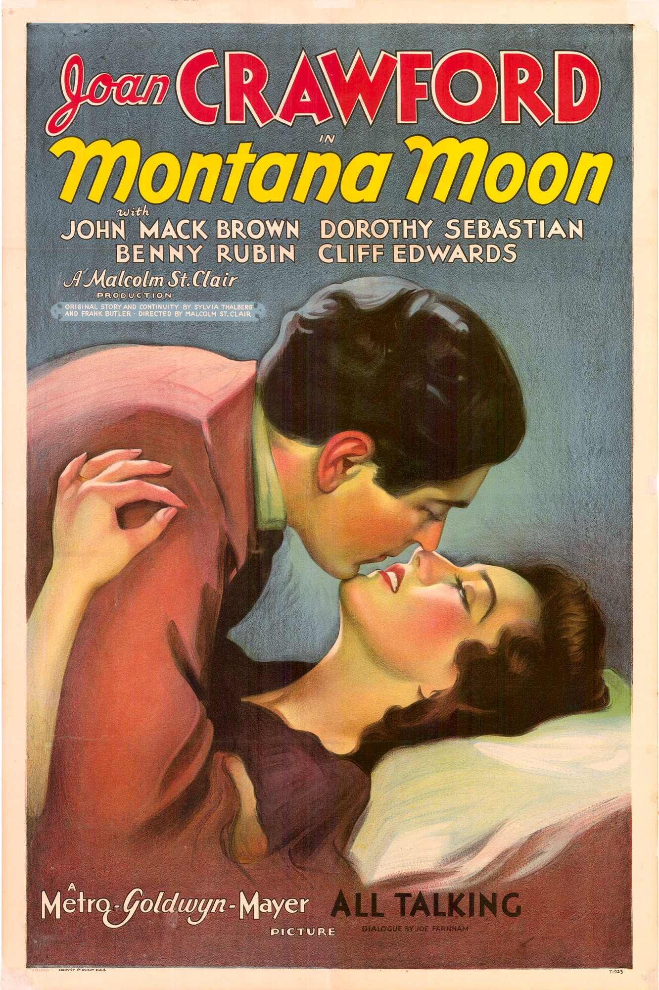 Poster for the 1930 film Montana Moon. The item has no copyright markings on it as can be seen in the links above. At bottom left is "Sound" and Country of origin USA and #5841. At bottom right is T-923.